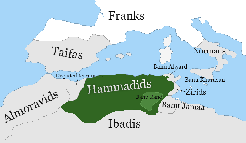 Hammadid Dynasty at its Greatest Extent in 1070s